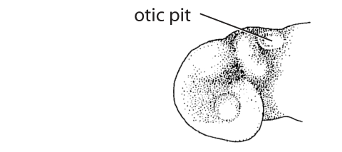 Standard Event System character depiction